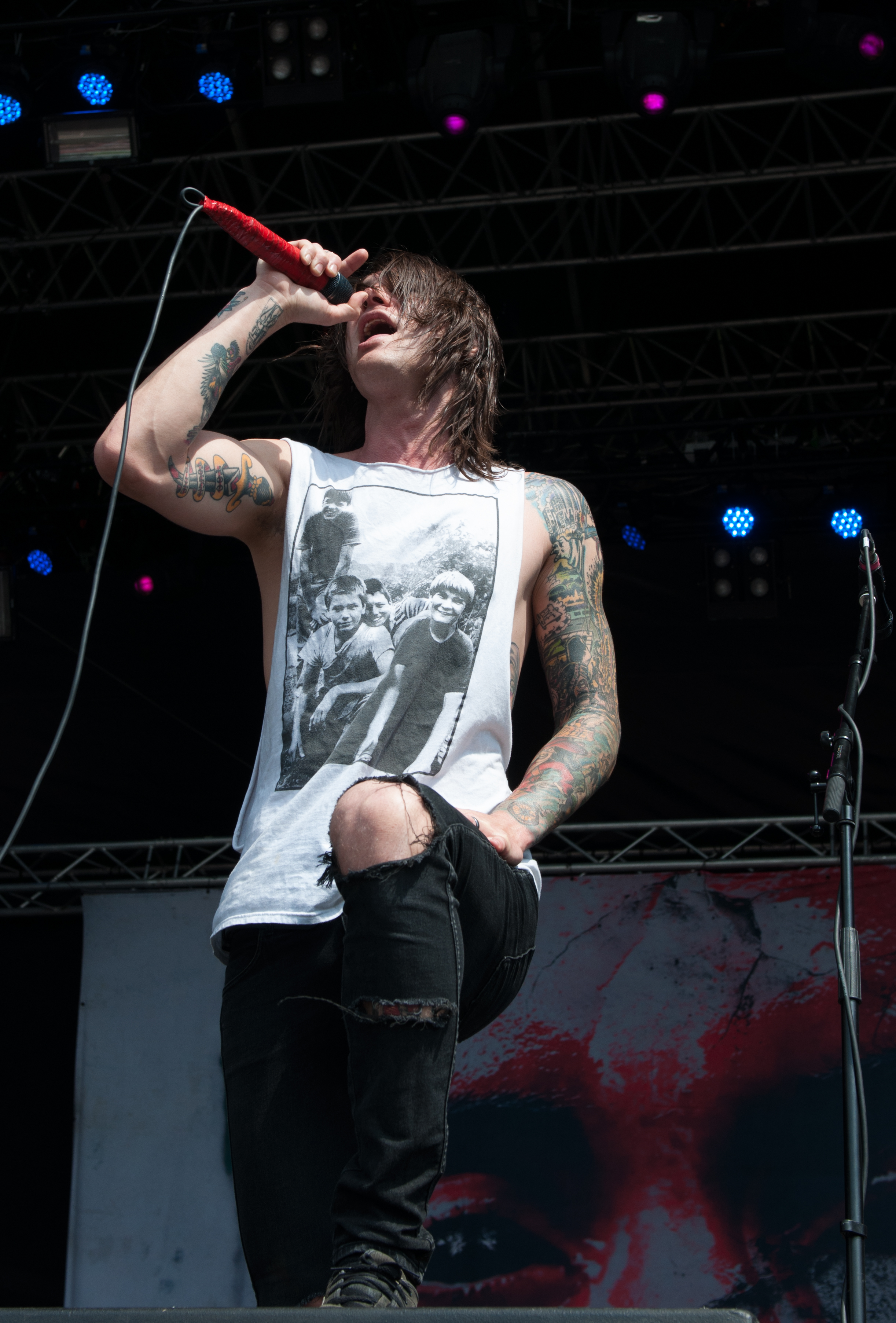 Blessthefall at Vainstream Rockfest 2014